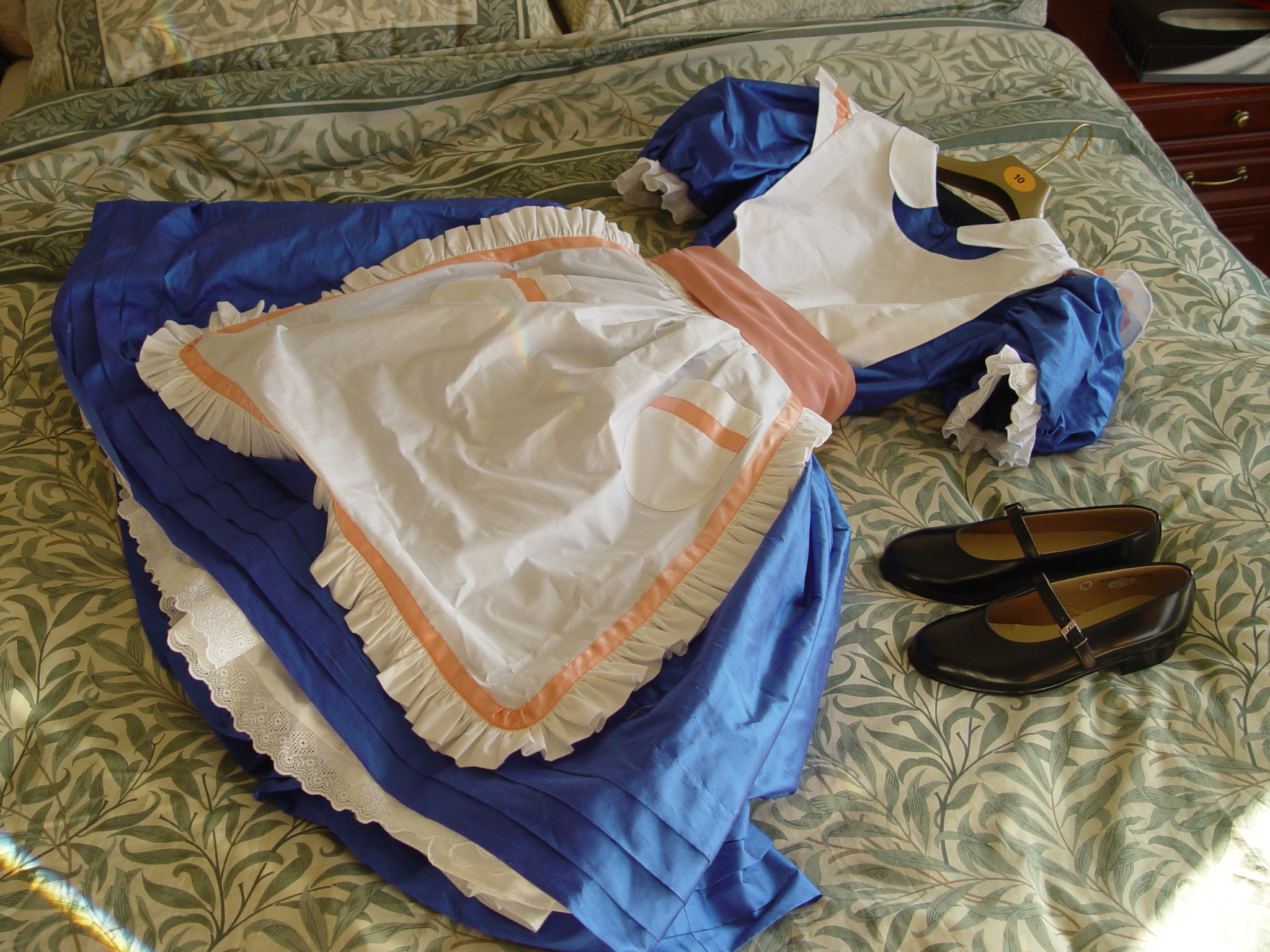 A dress in the style of that worn in the 1972 film 'Alice in Wonderland' featuring Fiona Fullerton in the title role. Dress designed and made by Gini Newton, owned and photographed by Birgit Compton.